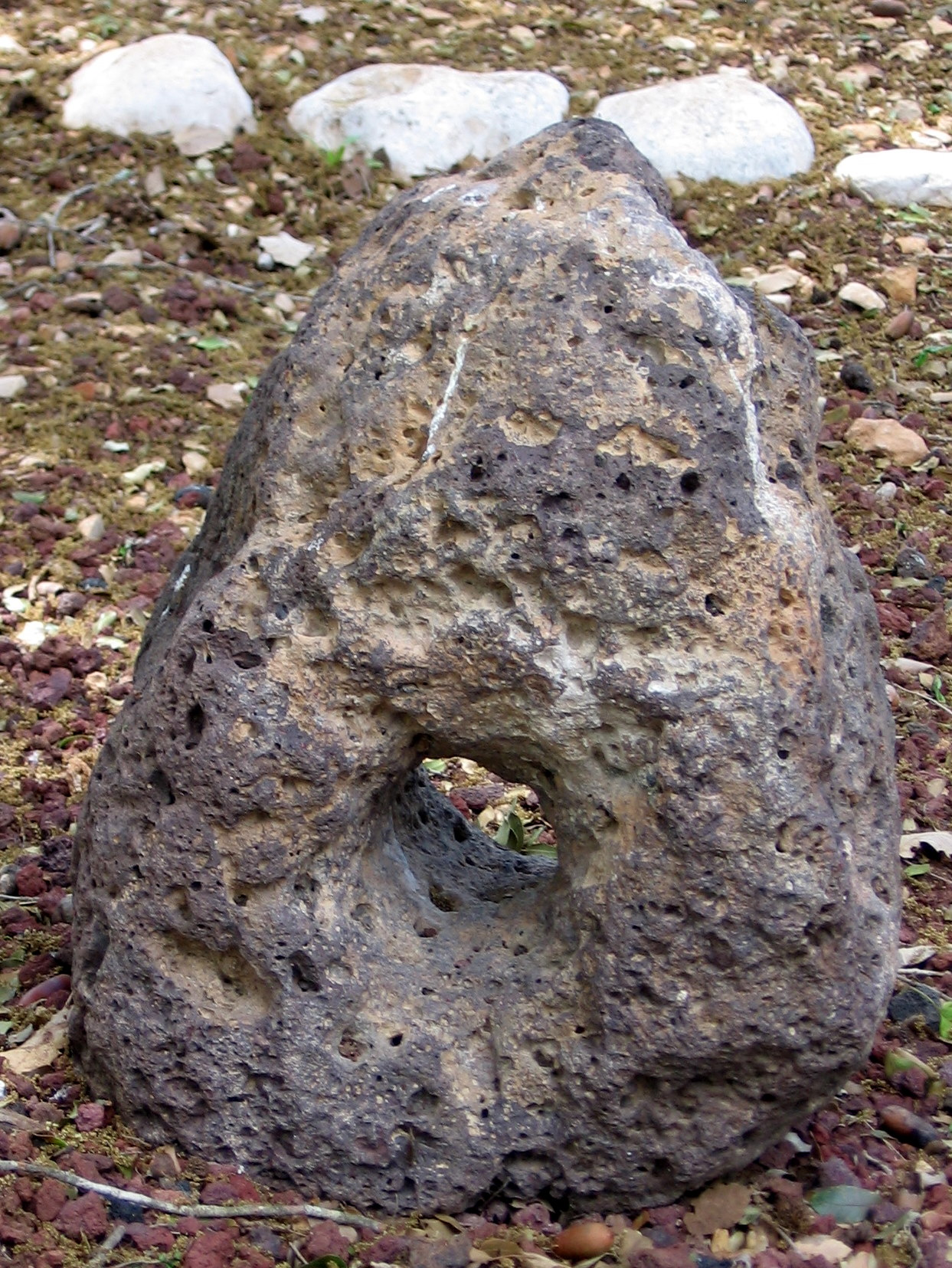 Basalt anchor found in the Sea of Galilee. Israel Antiquities Authority #2008-225